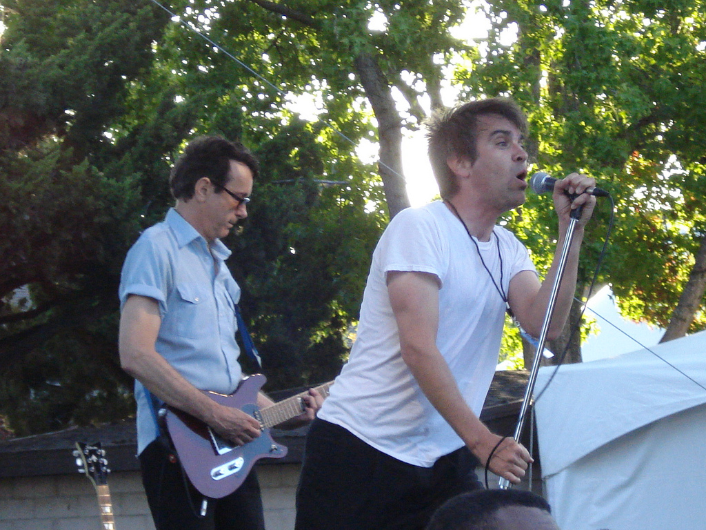 Dead Kennedys live in Harmony Festival in june/12/2009.